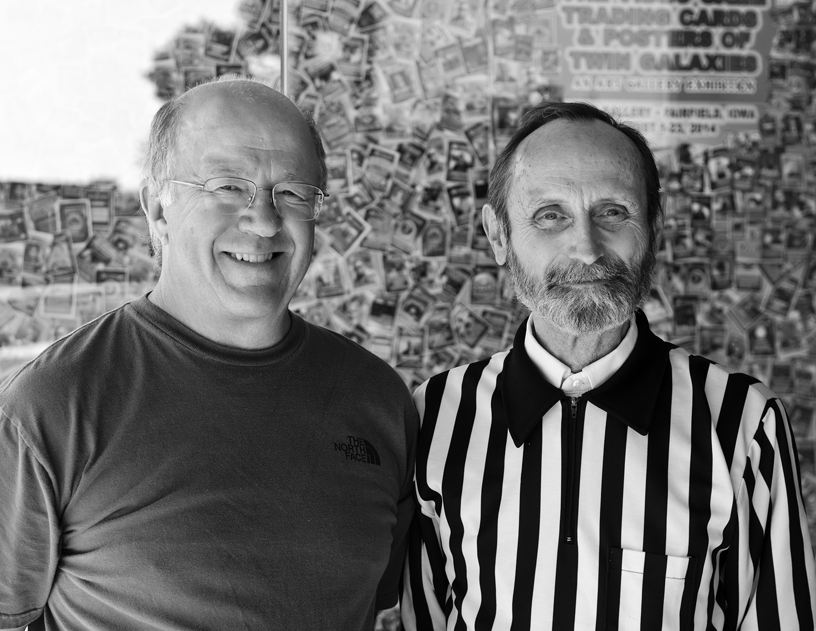 Walter Day and his Business Partner from the early 1980's. Photo was taken in Fairfield Iowa, 2014